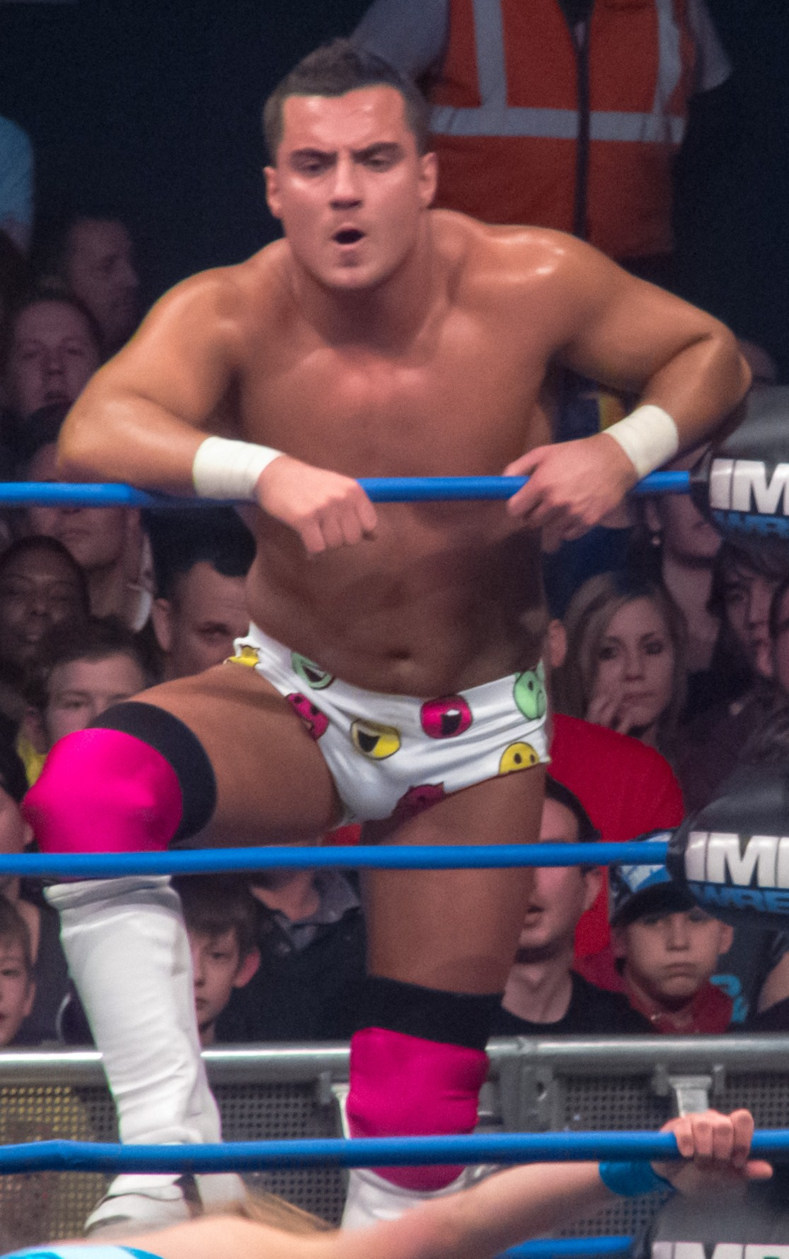 Marty Scur'l at the Impact! TV Tapings in Wembley, England on January 26, 2013.